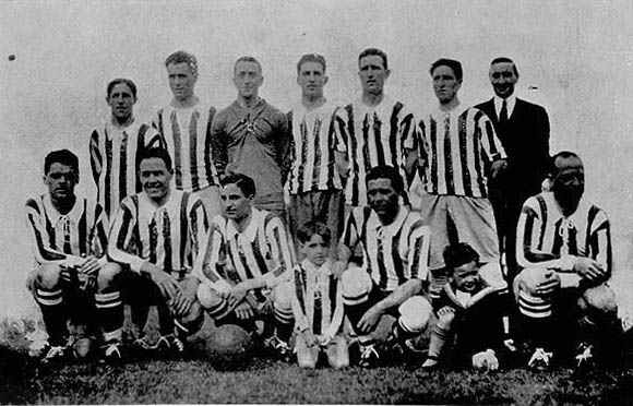 Club Atlético Talleres football team, second division champion in 1925.